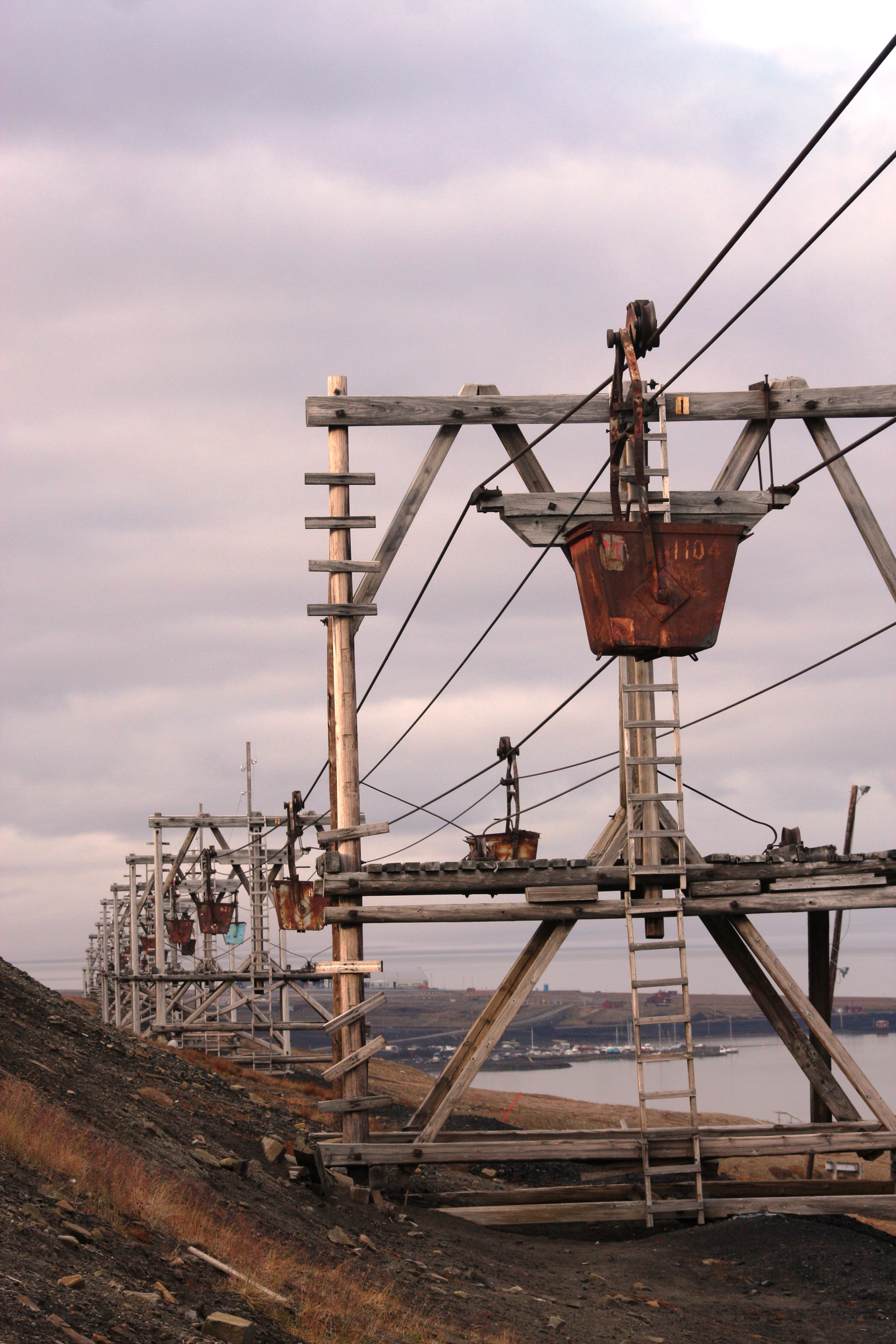 The coal cable-way from Adventdalen to Skjeringa and Hotellneset. Older than 1946, automatically protected as a cultural heritage site.